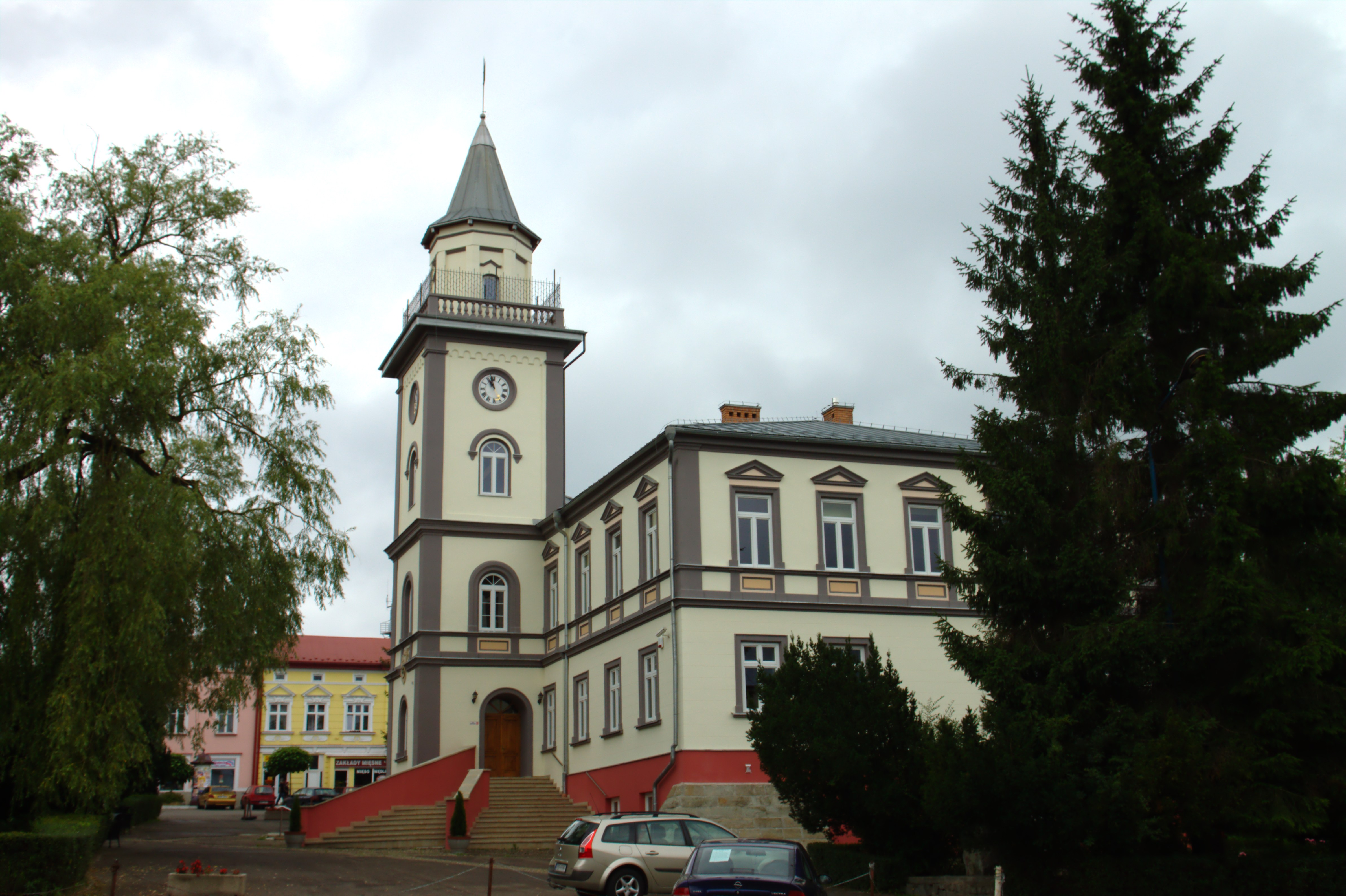 Town hall in Brzozów, Podkarpackie voivodeship, Poland This photo of Subcarpathian Voivodeship was taken during Wikiekspedycja 2011 set up by Wikimedia Polska Association.You can see all photographs in category Wikiekspedycja 2011. The making of this document was supported by Wikimedia Polska.